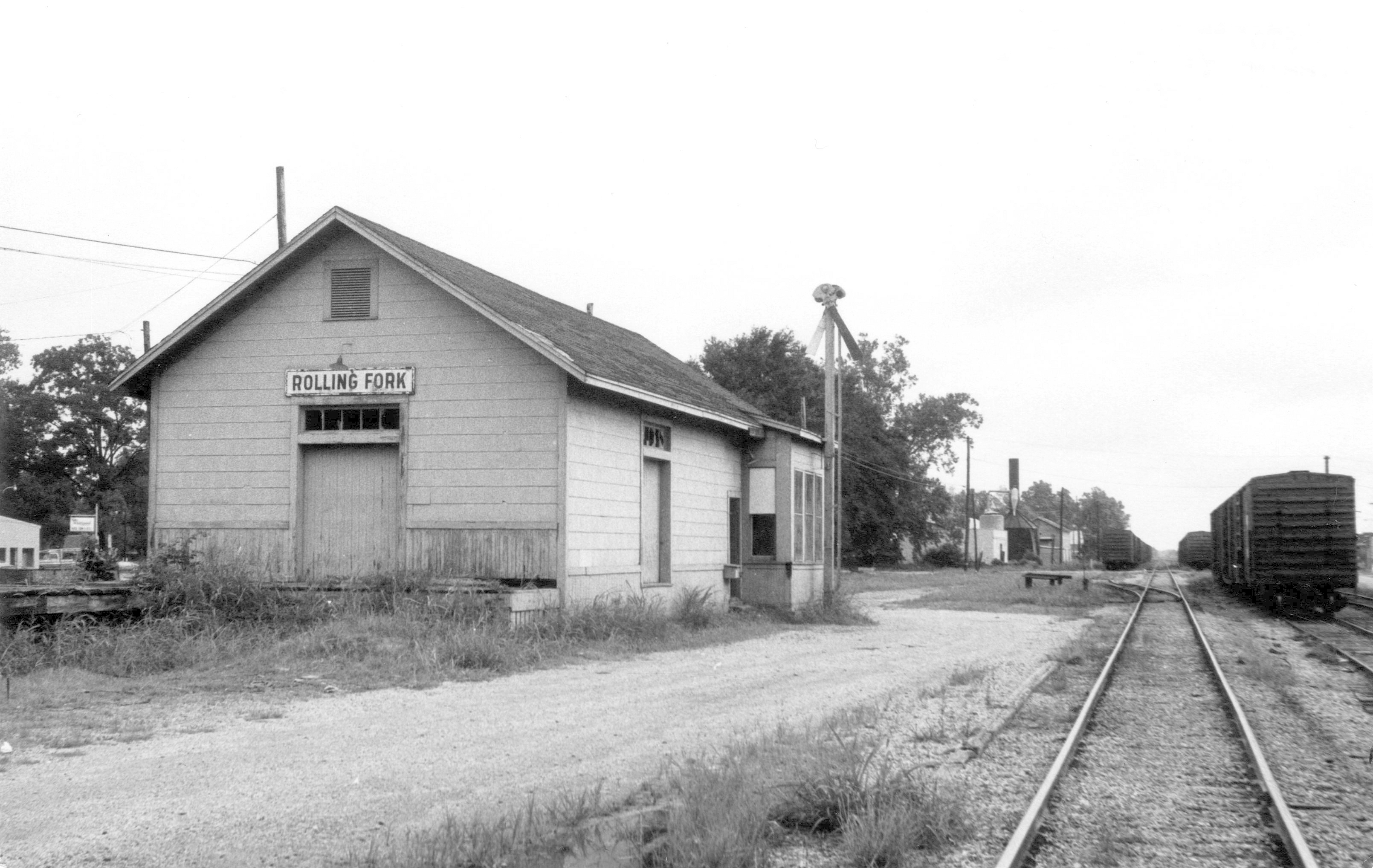 Illinois Central Depot, Rolling Fork, Mississippi. Collection: Railroad Depot Postcard Collection Call number: PI/1987.0009 System ID: 77427 Link to the catalog Illinois Central Depot, Rolling Fork, Miss. Please see our profile page for information on ordering. Scanned as tiff in 2008/11/13 by MDAH. Credit: Courtesy of the Mississippi Department of Archives and History